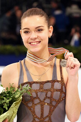 Adelina Sotniкova at the European Championships 2014